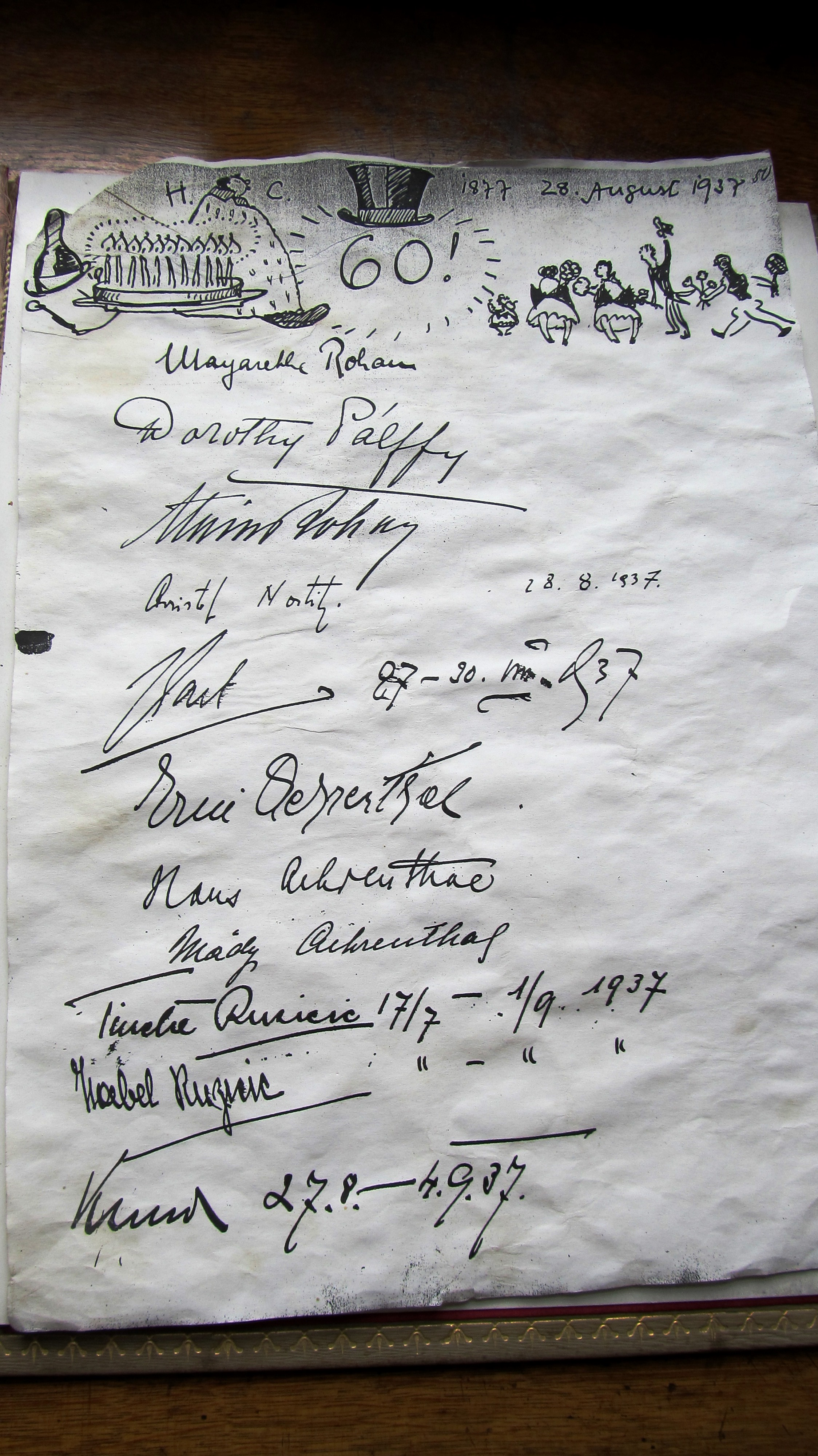 Guest book Hruby Rohozec 1937